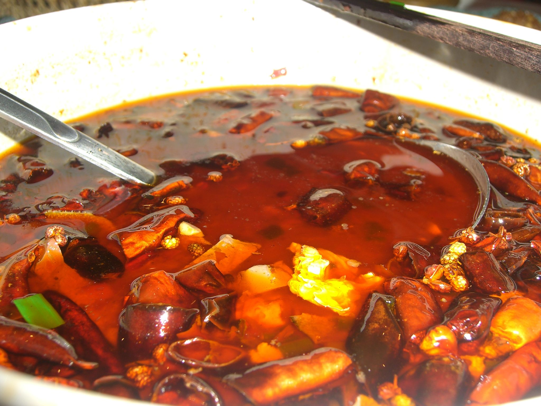 毛血旺 Special boiled pork combination in hot chilli potage - chilli oil - Tooraking AUD18.80 More oil than the Exxon Valdez! 巴国布衣 精品川菜馆 Ba Guo Bu Yi Tooraking Fine Chinese Cuisine Level 1, Trak Centre, 443 -445 Toorak Rd Toorak 3142 (03) 9826 1386